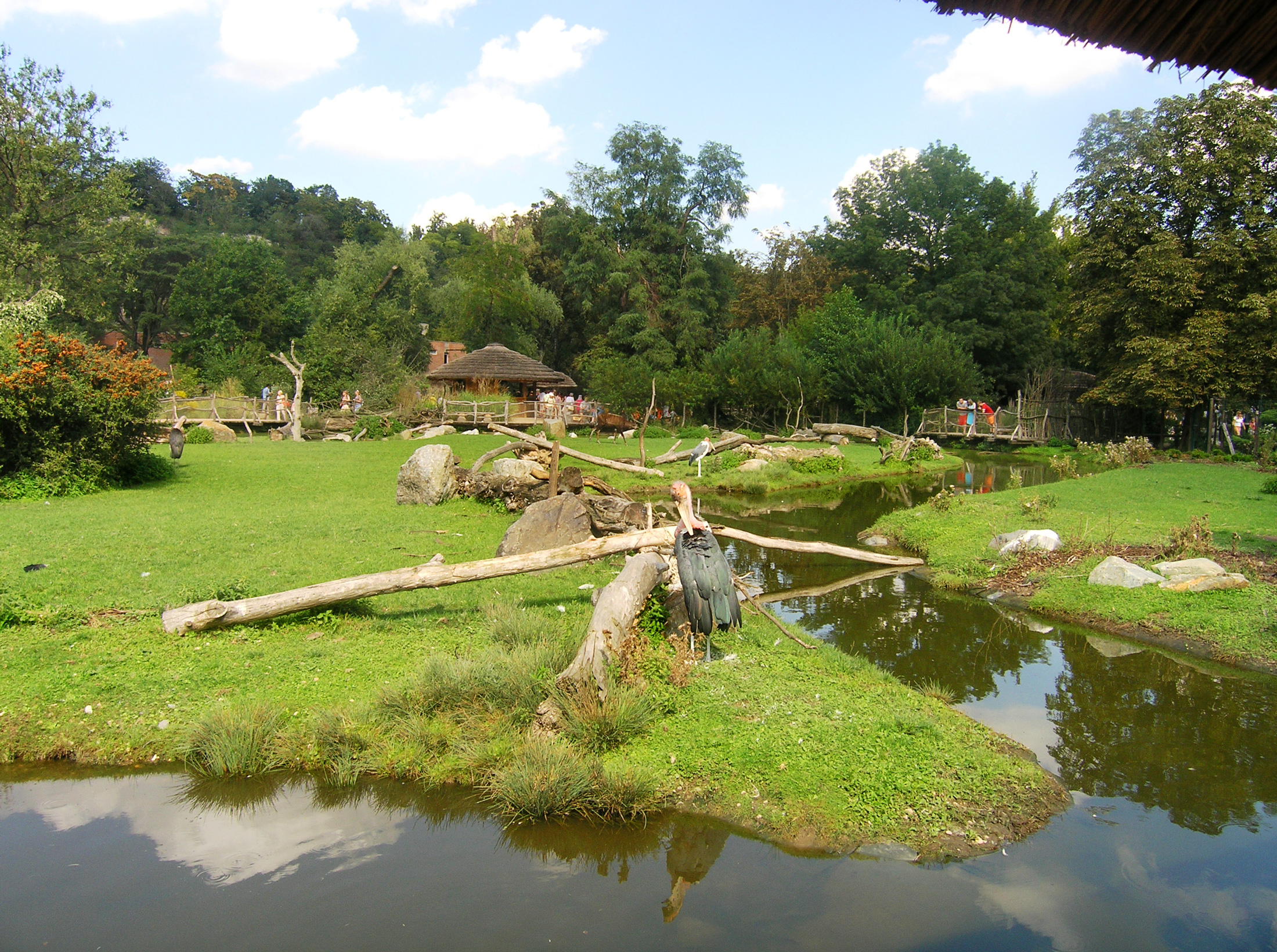 "Water world" in Zoo Prague